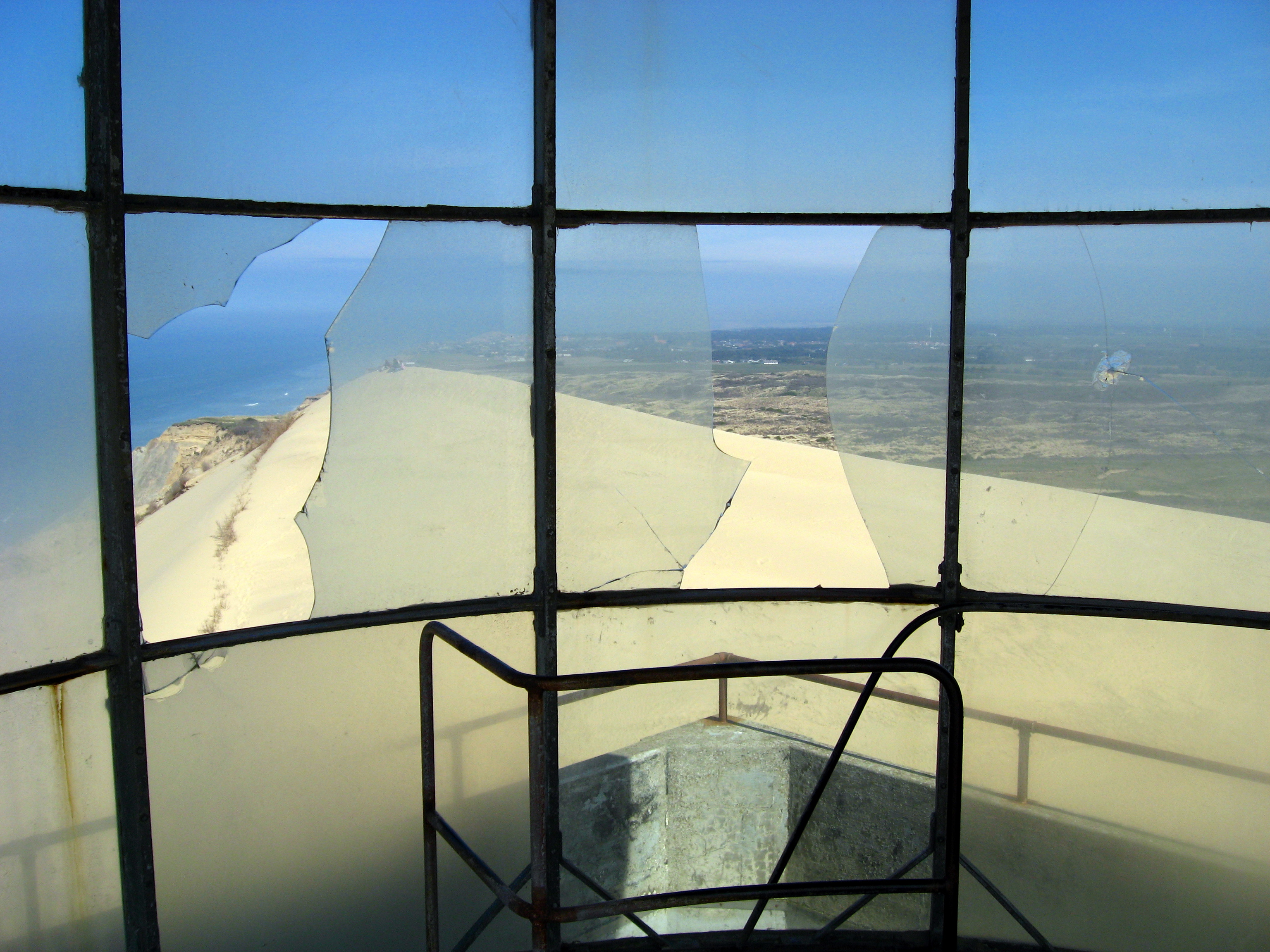 Rubjerg Knude in 2009, view from the top of the lighthouse